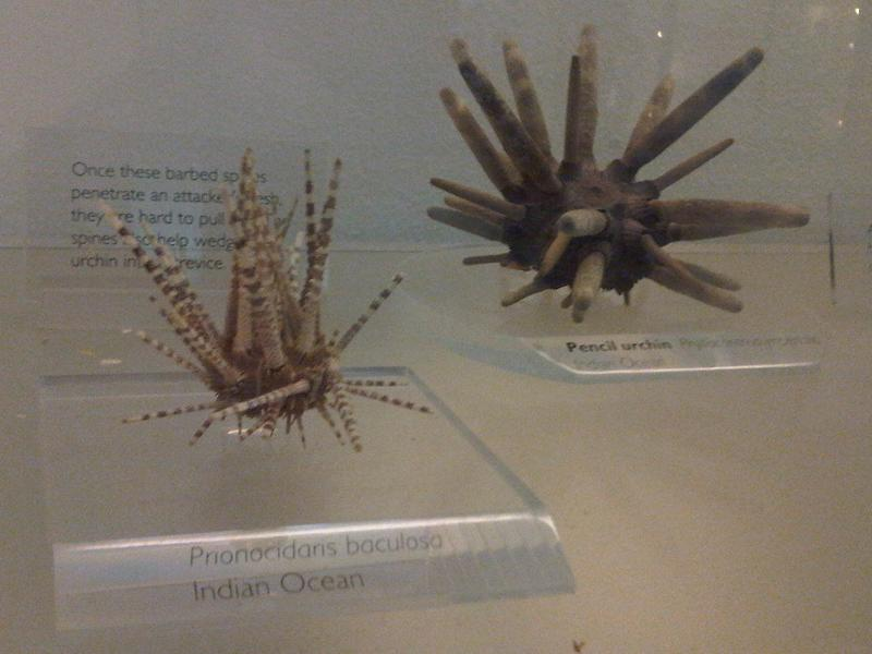 Prionocidaris baculosa and Phyllacanthus imperialis at the Natural History Museum in London, UK.